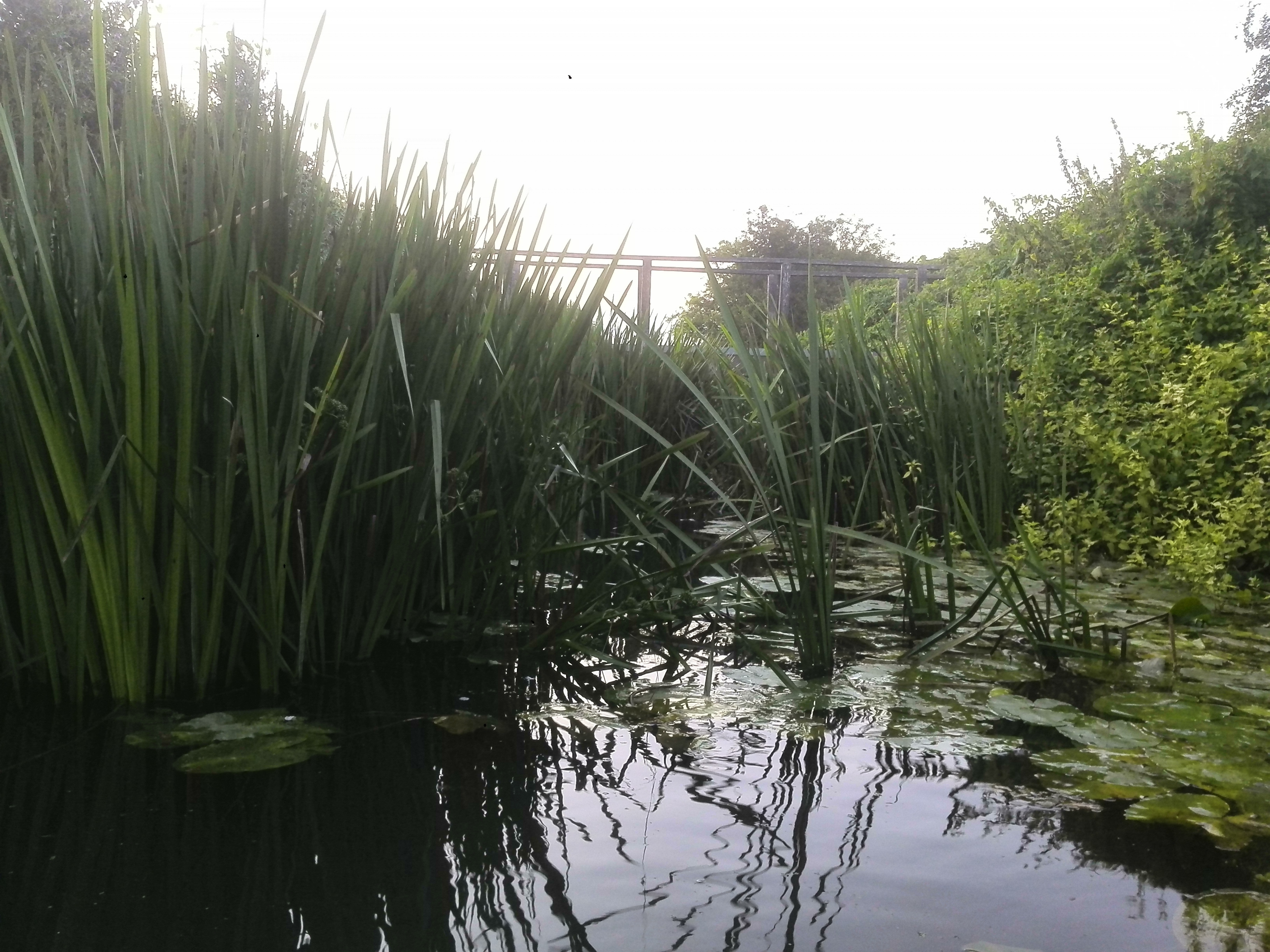 River Bourne navigation blocked by vegetation near footbridge, Tributary of R.Medway, Kent, England